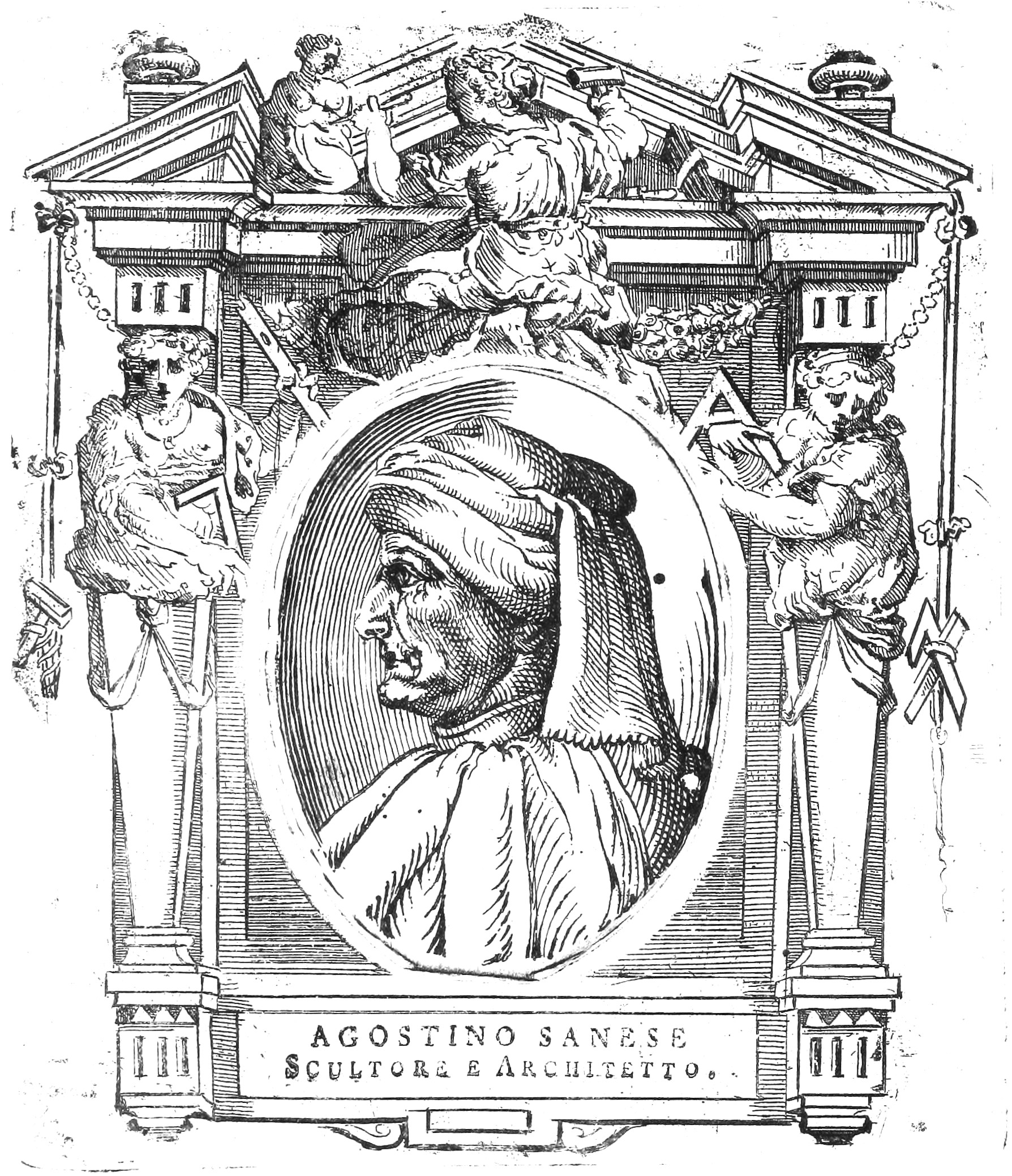 Title: Vite de più eccellenti pittori scultori ed architetti Year: 1767 (1760s) Authors: Vasari, Giorgio, 1511-1574 Coltellini, Marco, 1719-1777 printer Stecchi, Giovanni Batista, printer Pagani, Antonio Giuseppe, printer Masi, Tommaso, publisher Subjects: Artists Art, Italian Art, Renaissance Publisher: Livorno : Per Marco Coltellini Firenze : Per lo Stecchi e Pagani Text Appearing Before Image: ' Text Appearing After Image: VITA 335 E D OLO SCULTORI, ED ARCHITETTI SANESL. R A gli altri, che nella, fcuola di Giovanni, e Nic- Jgoftìno, edcola (cultori Pifani,, fi, efortarono, Agoftino, ed Agno- agnolo difce-ìo fcukori ÌSanefi, de quali ?I prefente fcriviamo la w^rS,-^^ riufcirono, fecondo que tempi, eccellentiffimi . Quelli fe-condo che io trovo, nacquero di padre, e di madre Sa-ncii , e gli antenati loro furono architetti ; concioffiachè 1 an-no 1190. fotto il reggimento de tre confoli fuflè da lorocondotta a perfezione Fontebranda (1) ; e poi lanno fe-guente fotto il medefimo confolato, la Dogana di quellaCitta,, ed altre fabbriche. E. nel vero fi vede che i femidelk virtù, molte volte, nelle cafe dove fono fiati per al-cun tempa germogliano, e fanno rampolli, che poi produ-cono maggiori,, e migliori frutti, che le prime piante fattonon avevano.. Agoftino dunque , ed Agnolo , aggiugnendomolta miglioramento alla maniera di Giovanni, e NiccoliPifani,. arricchirono farte di miglior difegno, ed invenzi